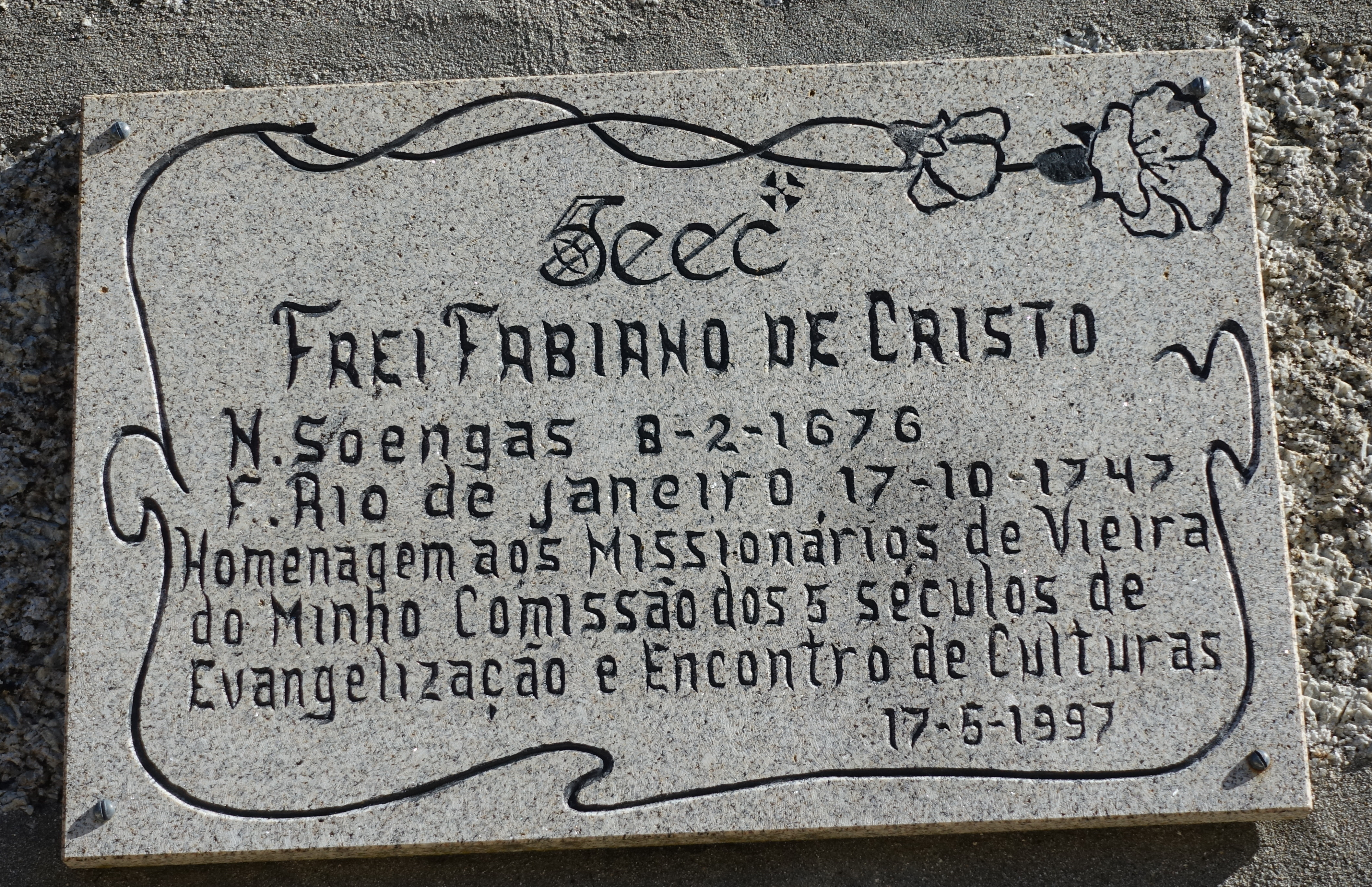 Church of Soengas in Vieira do Minho Portugal.